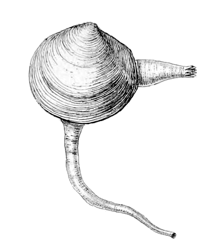 Loripes lucinalis (Mollusca: Bivalvia: Heterodonta: Lucinidae)